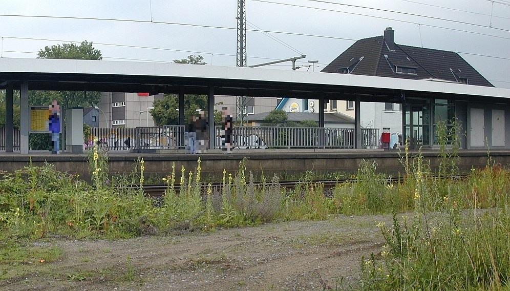 Bahnhof Duisburg-Großenbaum This panoramic image was created with Autostitch (stitched images may differ from reality).